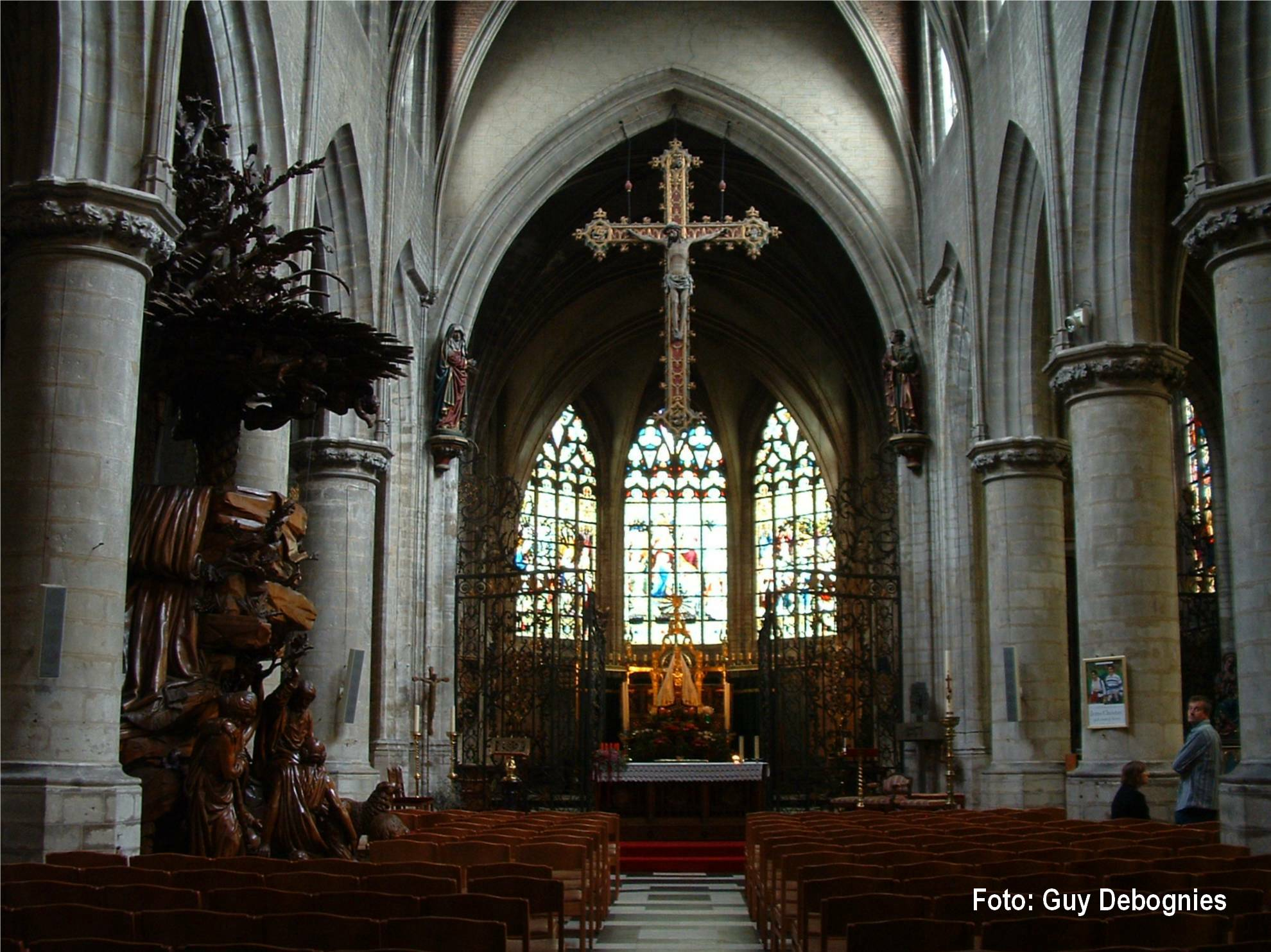 Alsemberg, interior view of the Church of Our Lady.